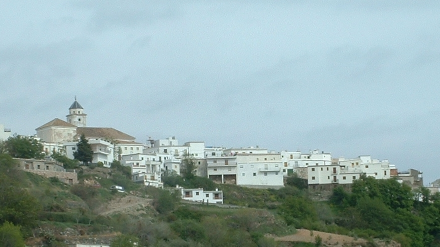 View of Cáñar, Granada, from the east (taken from the GR7 footpath)